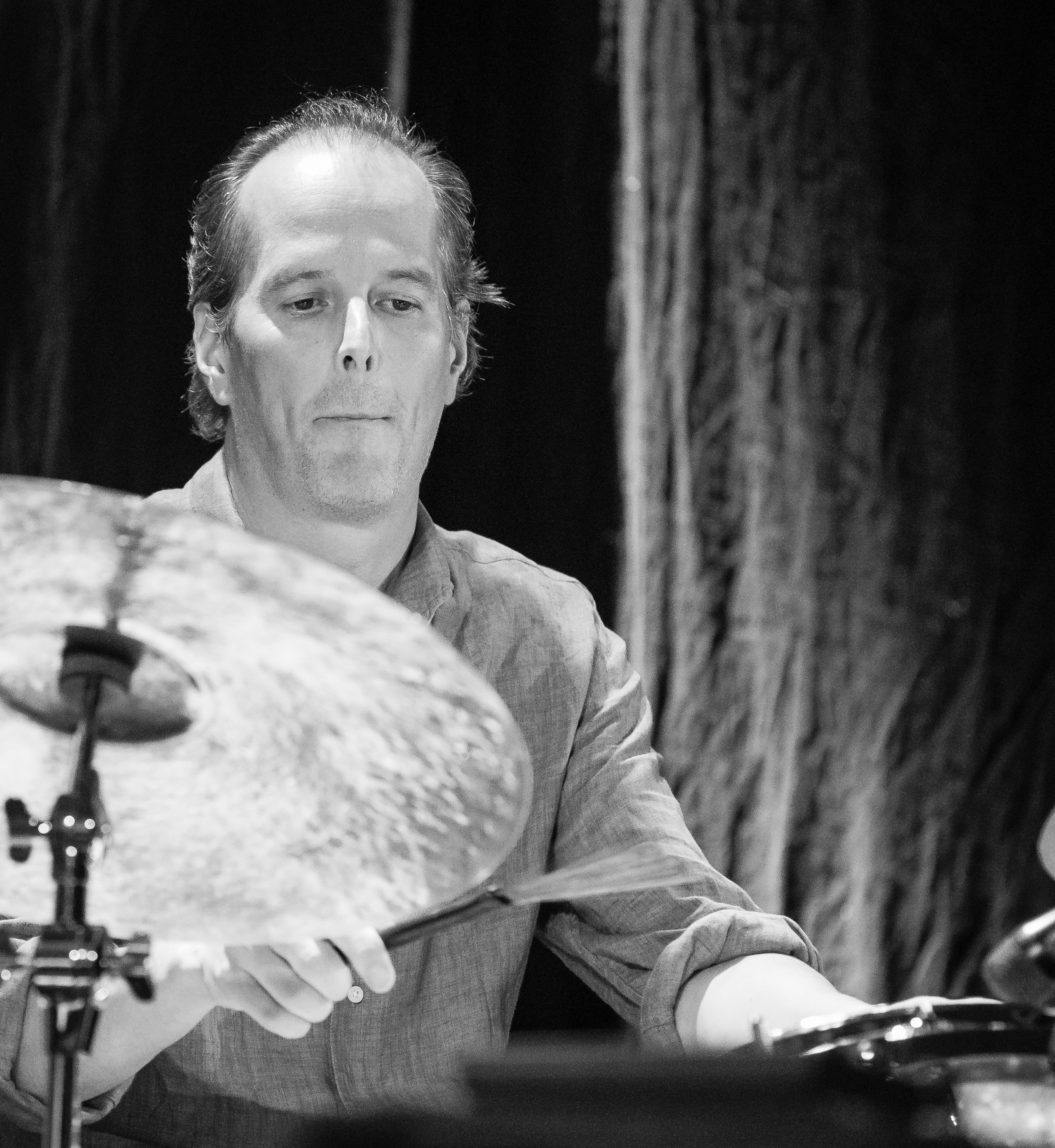 Markku Ounaskari in a concert with Sinikka Langeland at Thon Hotel Jølster. The concert was part of Jazz på Jølst and took place on 12. October 2019 in Jølster. Lineup:Sinikka Langeland (kantele and vocal)Eivind Nordset Lønning (trumpet)Trygve Seim (saxophone)Maja Ratkje (electronic and organ)Mats Eilertsen (double bass)Markku Ounaskari (drums)